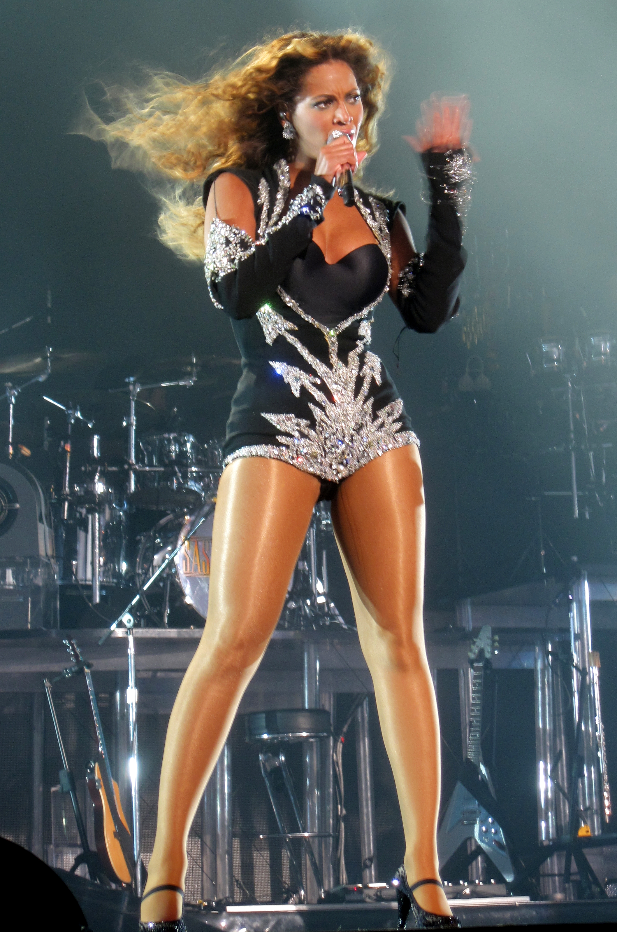 Beyoncé performing "Single Ladies (Put a Ring on It)" on The O2 Arena stage in London.